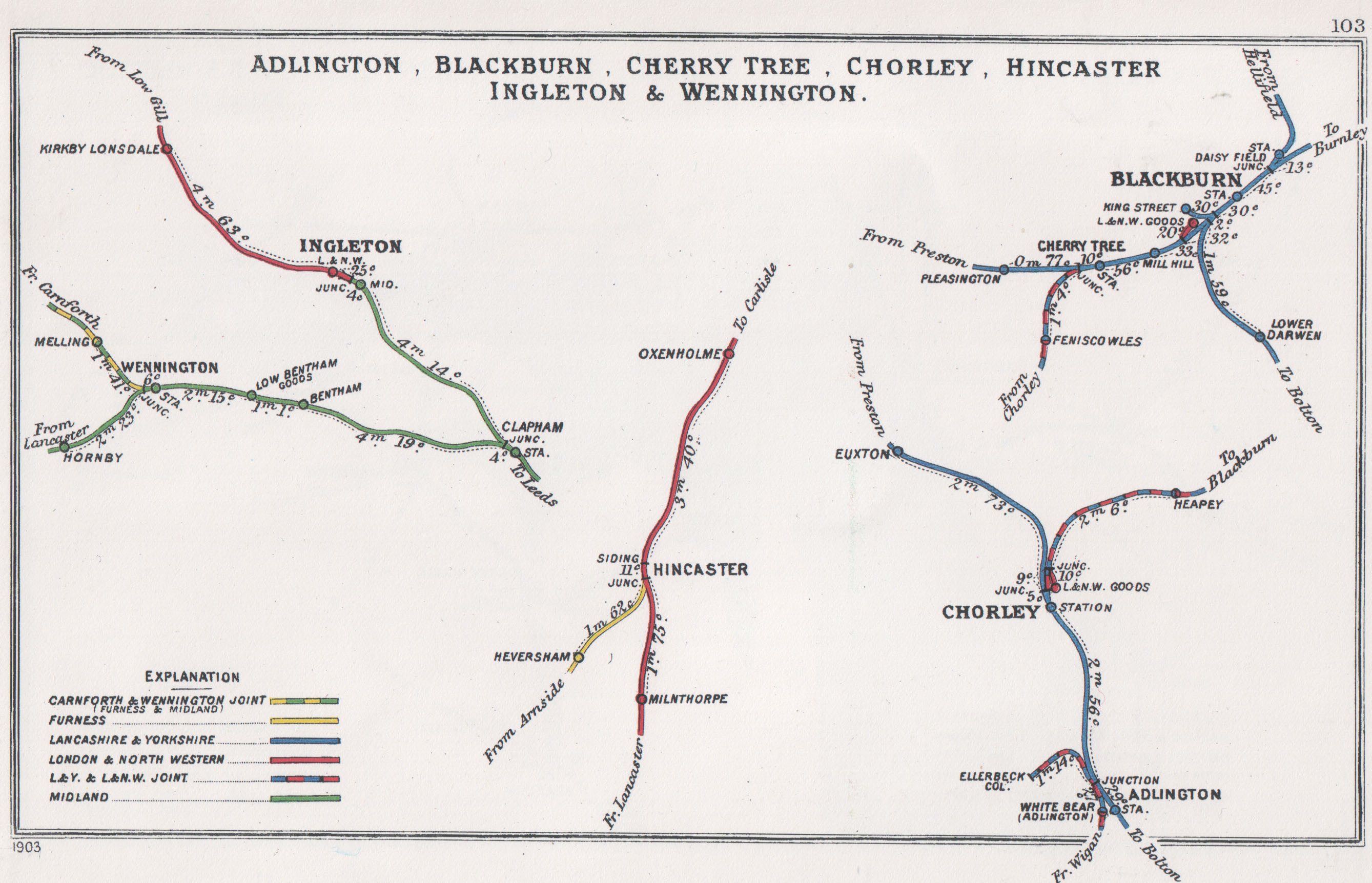 Railway Junctions in Adlington, Blackburn, Cherry Tree, Chorley, Hincaster; Ingleton & Wennington pre grouping